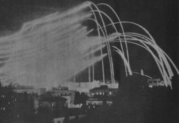 1948 Arab-Israeli War: Jordanian artillery shells Jerusalem Credits: Yad Yitzhak Ben Zvi Photo Archives Source: [1]